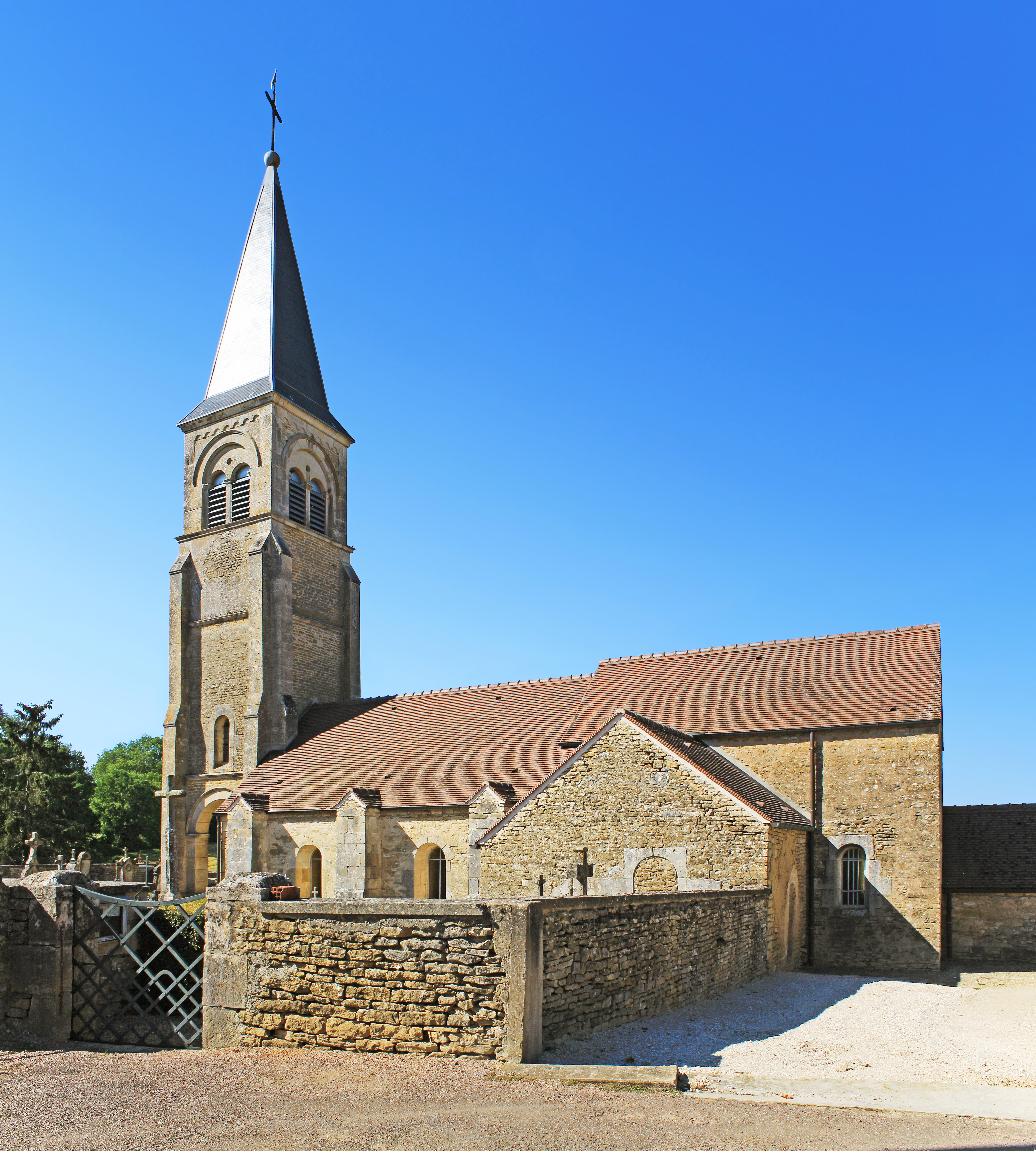 St Martin church in Étormay